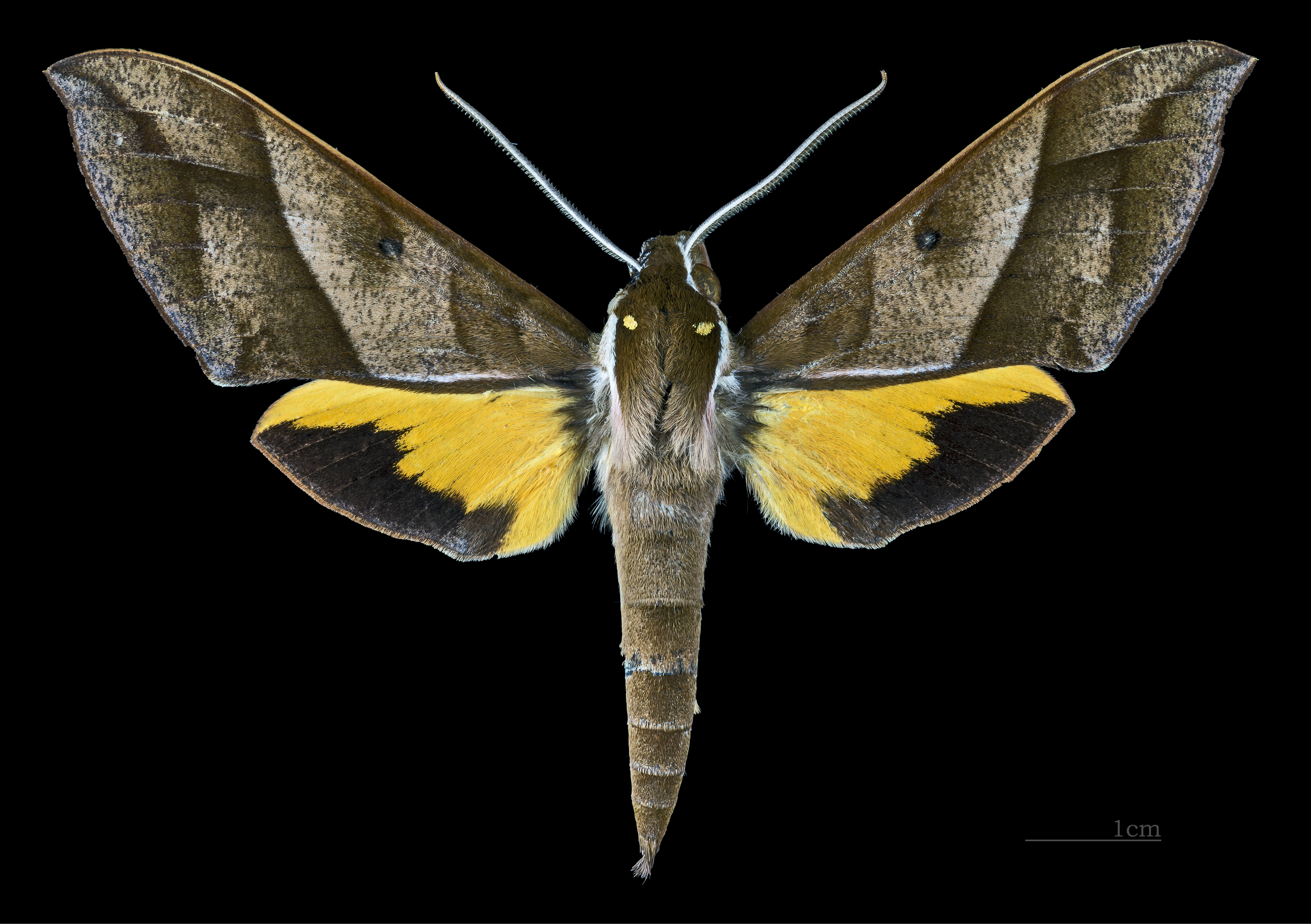 Gnathothlibus meeki - Dorsal side Collection of the Mathematician Laurent Schwartz